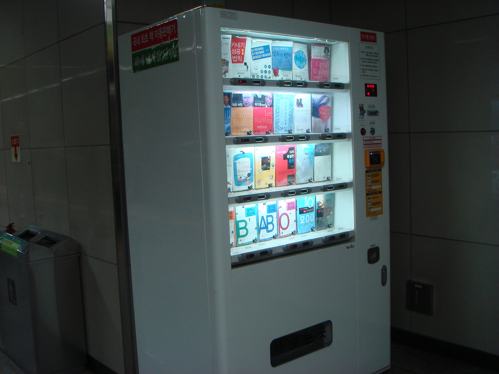 Book vending machine at a subway station in Busan, South Korea